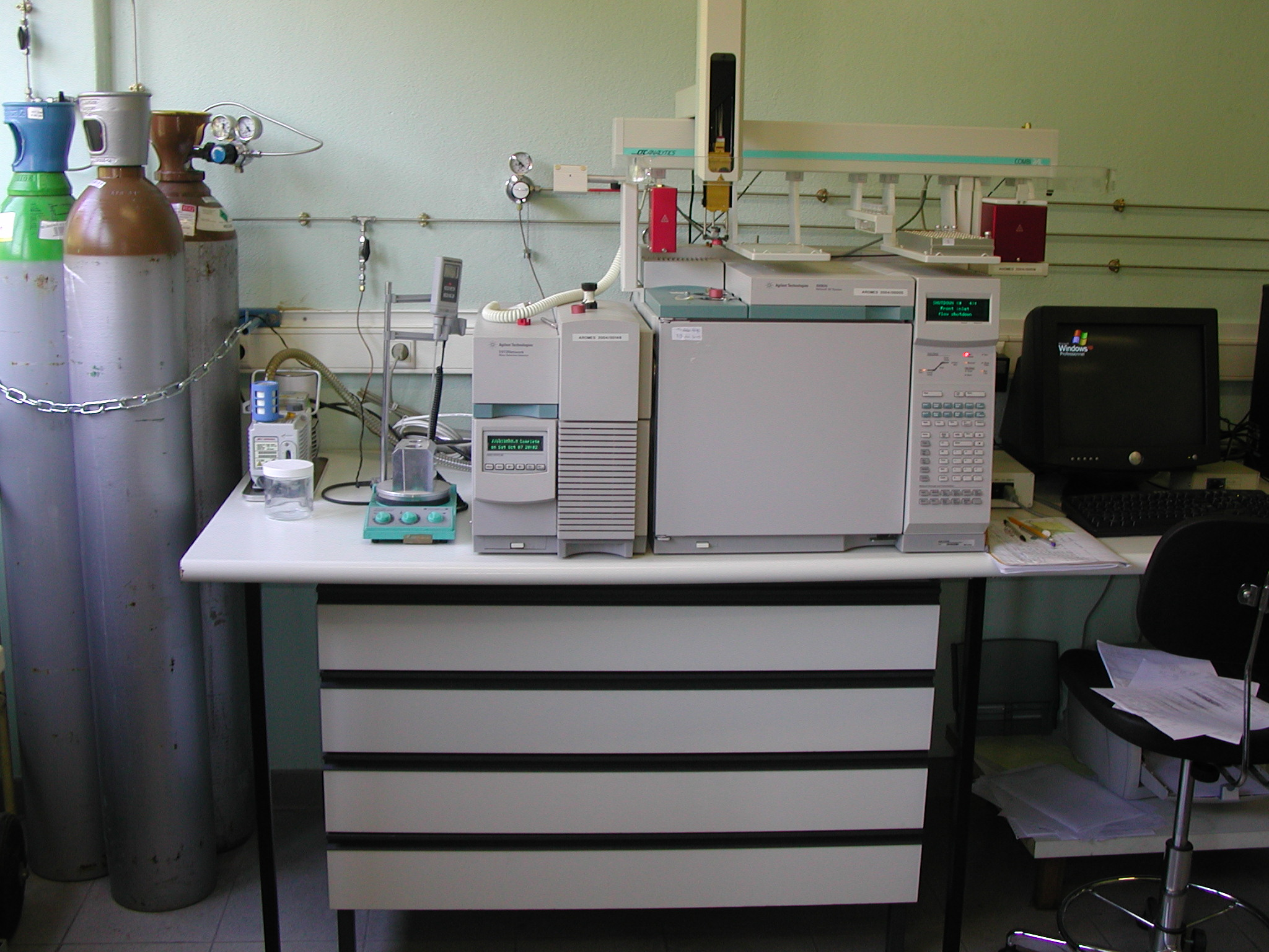 chromatographe phase gazeuse